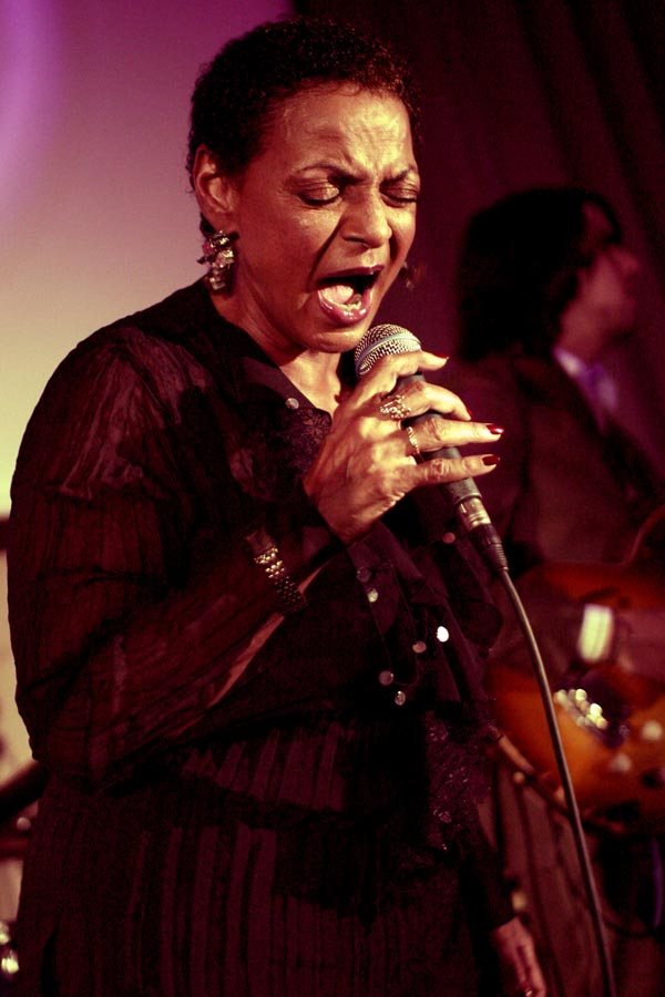 Spanky Wilson